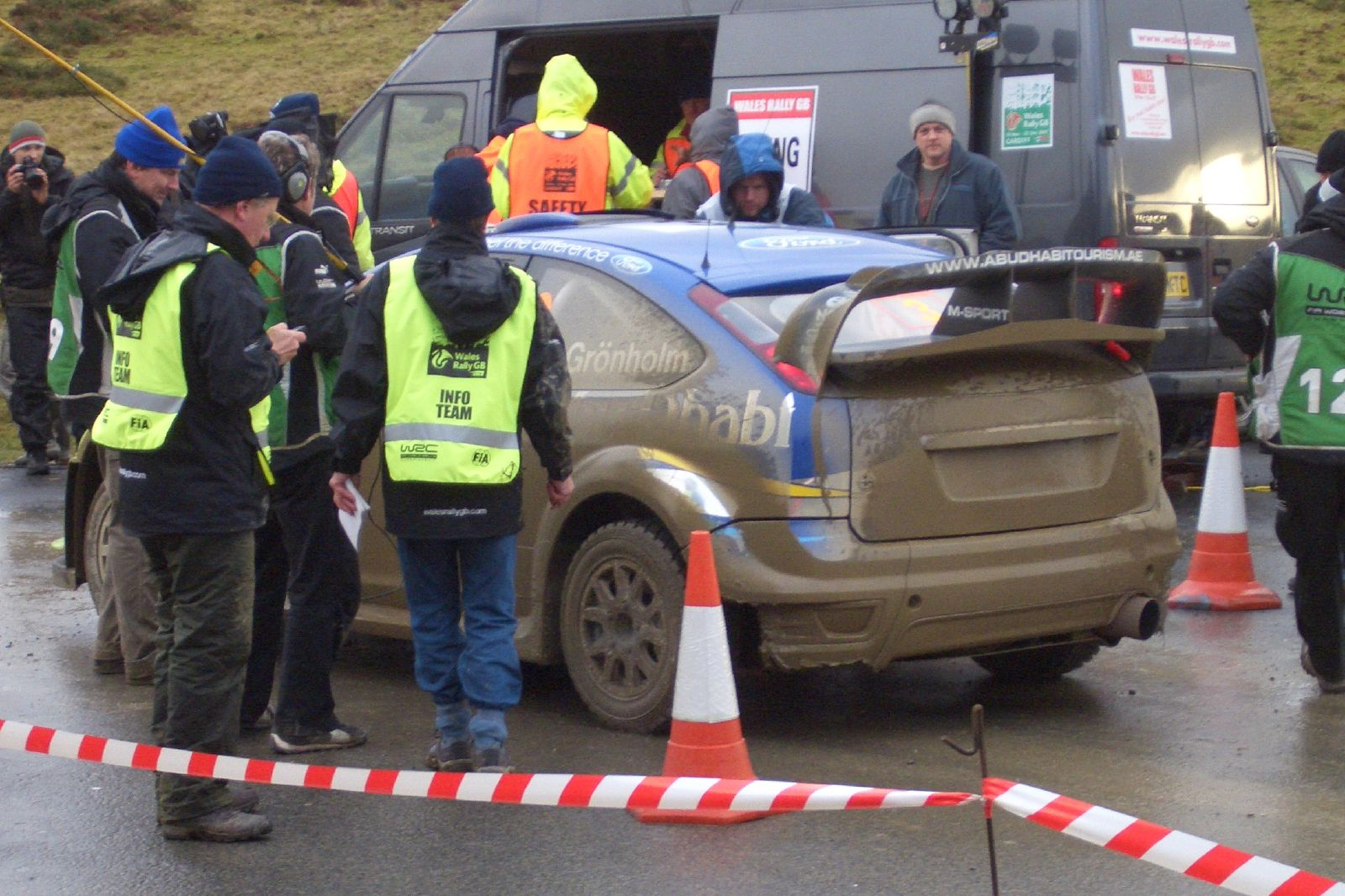 Marcus Grönholm driving his Ford Focus RS WRC 07 during 2007 Wales Rally GB.